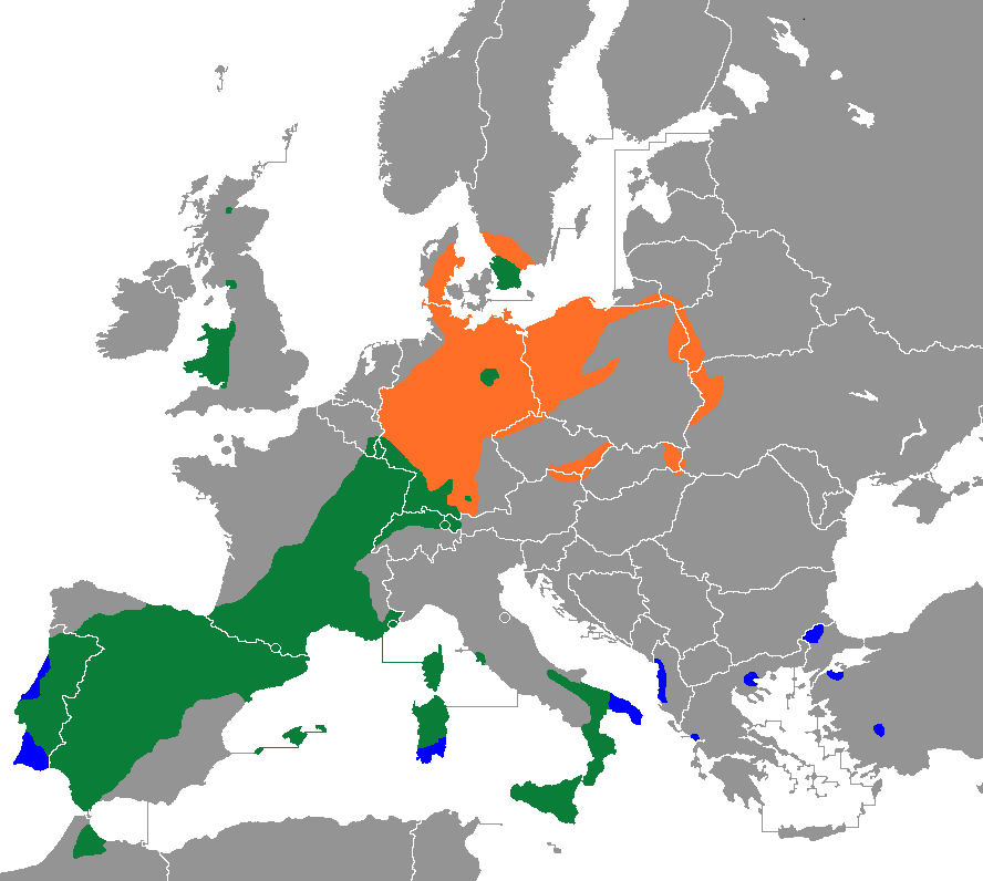 Map drawn by Ulrich Prokop (Scops) Main sources: James Ferguson-Lees and David A. Christie: Raptors of the World. Hougthon Mifflin Company. Boston&New York 2001. pp. 376 and 92. Jochen Walz: Rot und Schwarzmilan. Aula Wiebelsheim 2005. Seite 22.